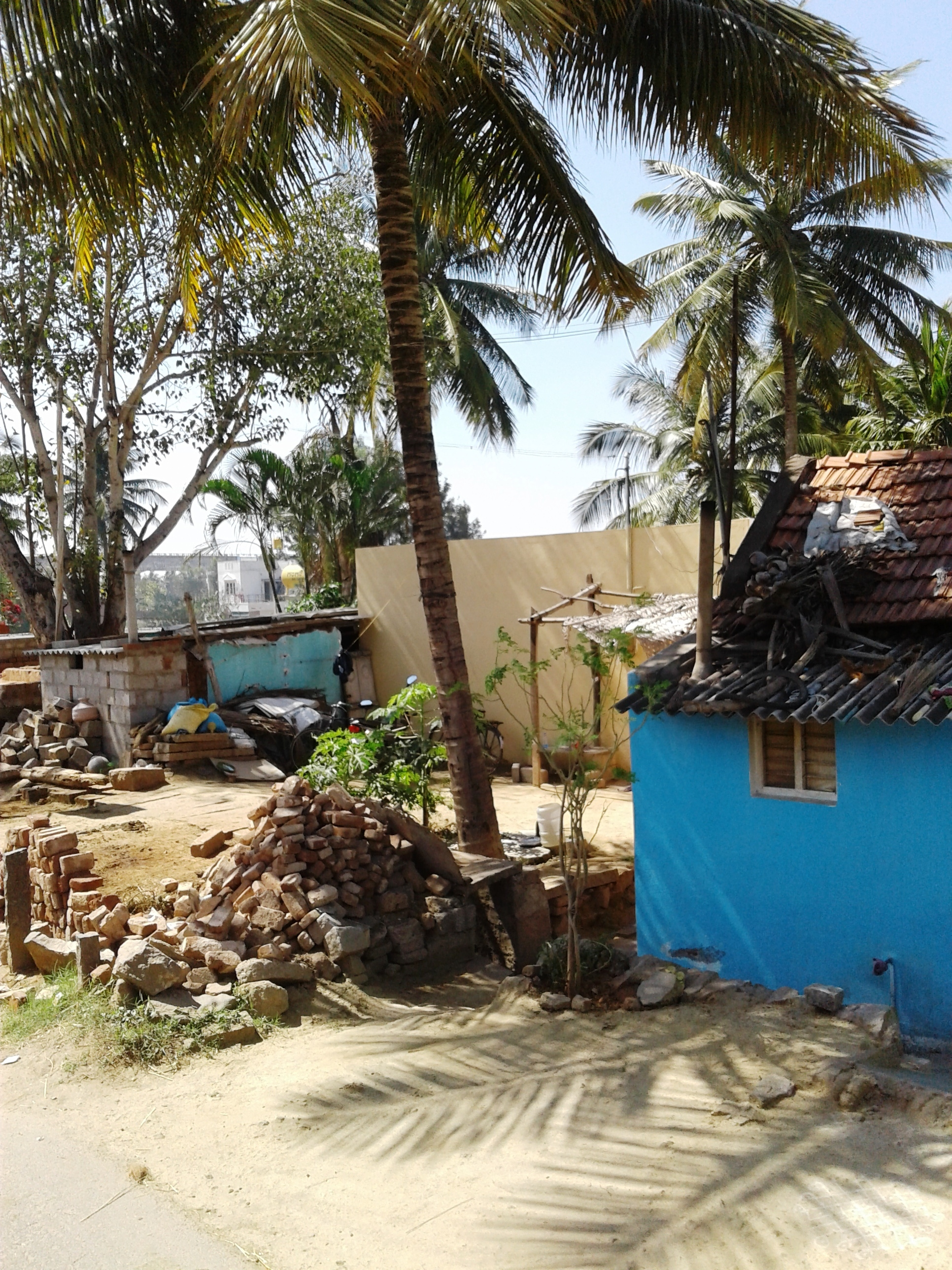 Mysore, India.